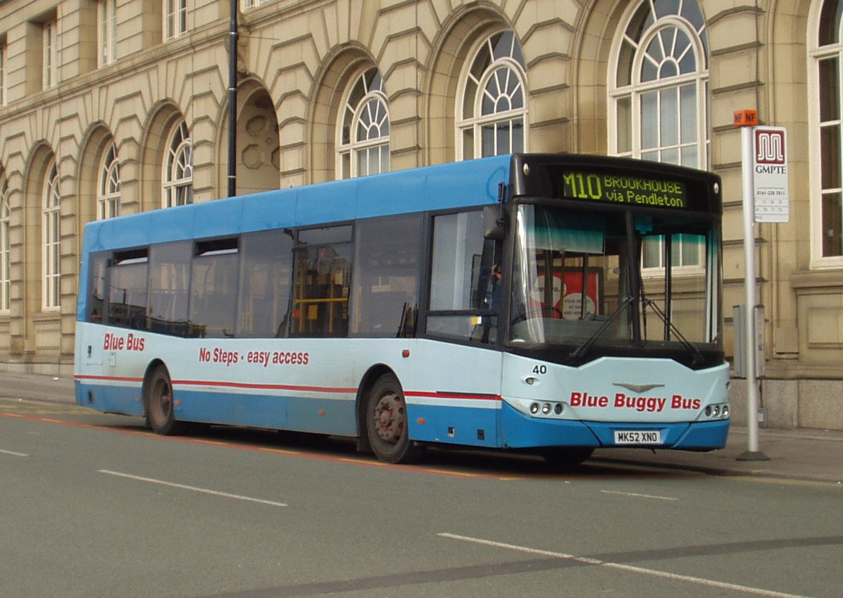 A low floor DAF SB220 bus with Ikarus Polaris bodywork, which is quite rare in the UK. This was one of seven in the erstwhile Blue Bus of Bolton fleet, since taken over by Arriva North West and Wales. It is pictured on Corporation Street in Manchester, date unknown.